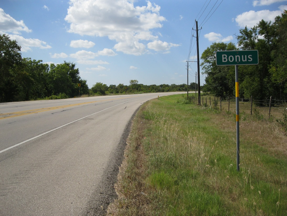 Photo shows Bonus sign along Farm to Market Road 102 just north of the Farm to Market Road 2614 intersection. The view is toward the north.